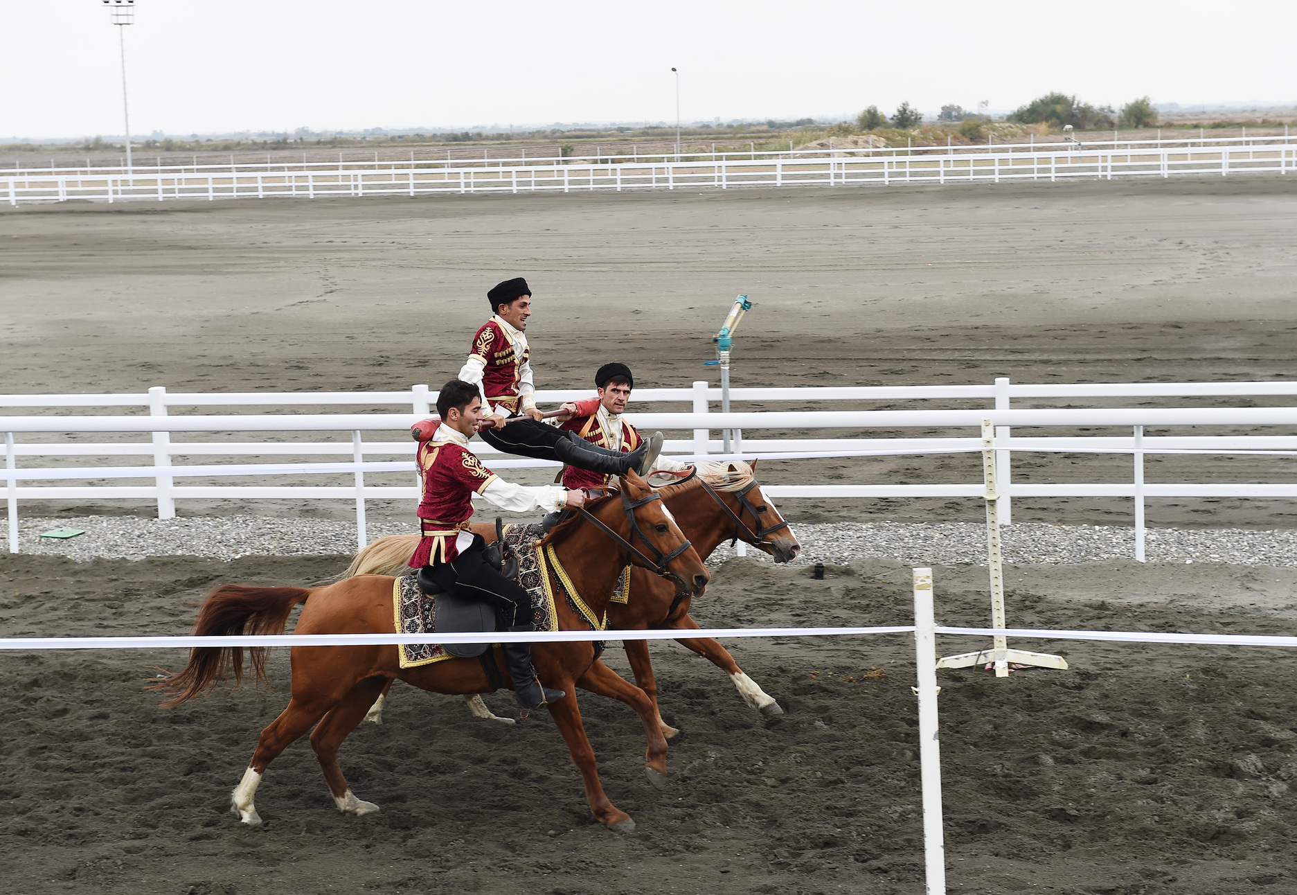 Qarabag Equestrian Complex